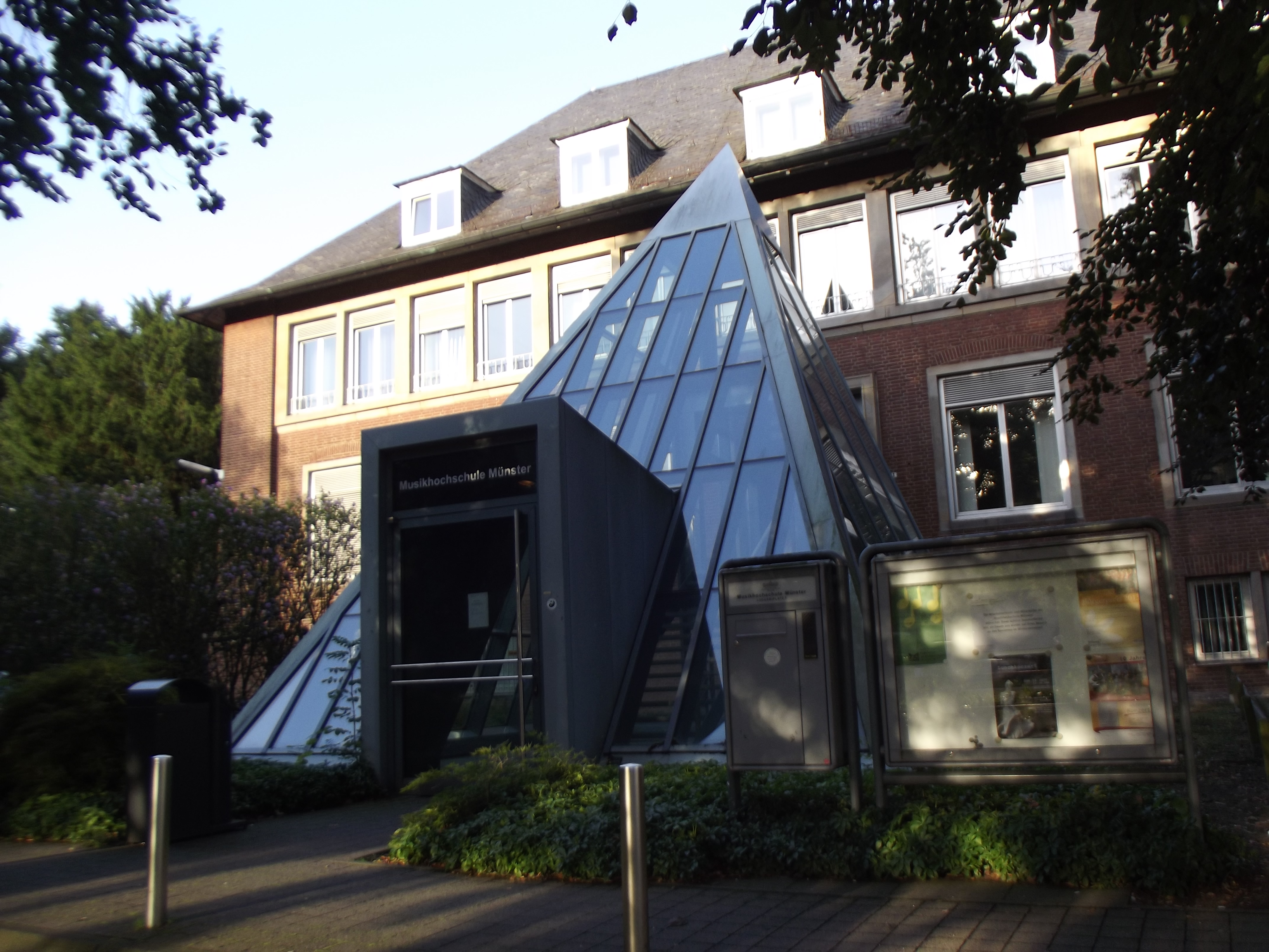 The entrance of the music conservatory of Münster's university